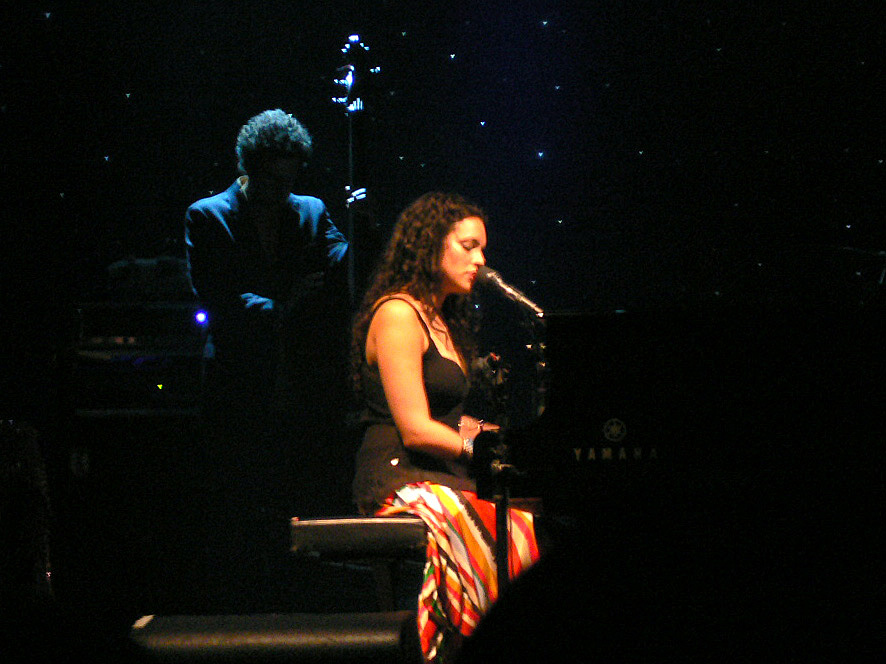 Norah Jones, Blaisdell Arena